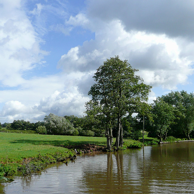 Trent and Mersey Canal at Barlaston, Staffordshire. A narrow strip of pasture is between the canal and the west coast main line railway here. Barlaston Station has been closed recently.